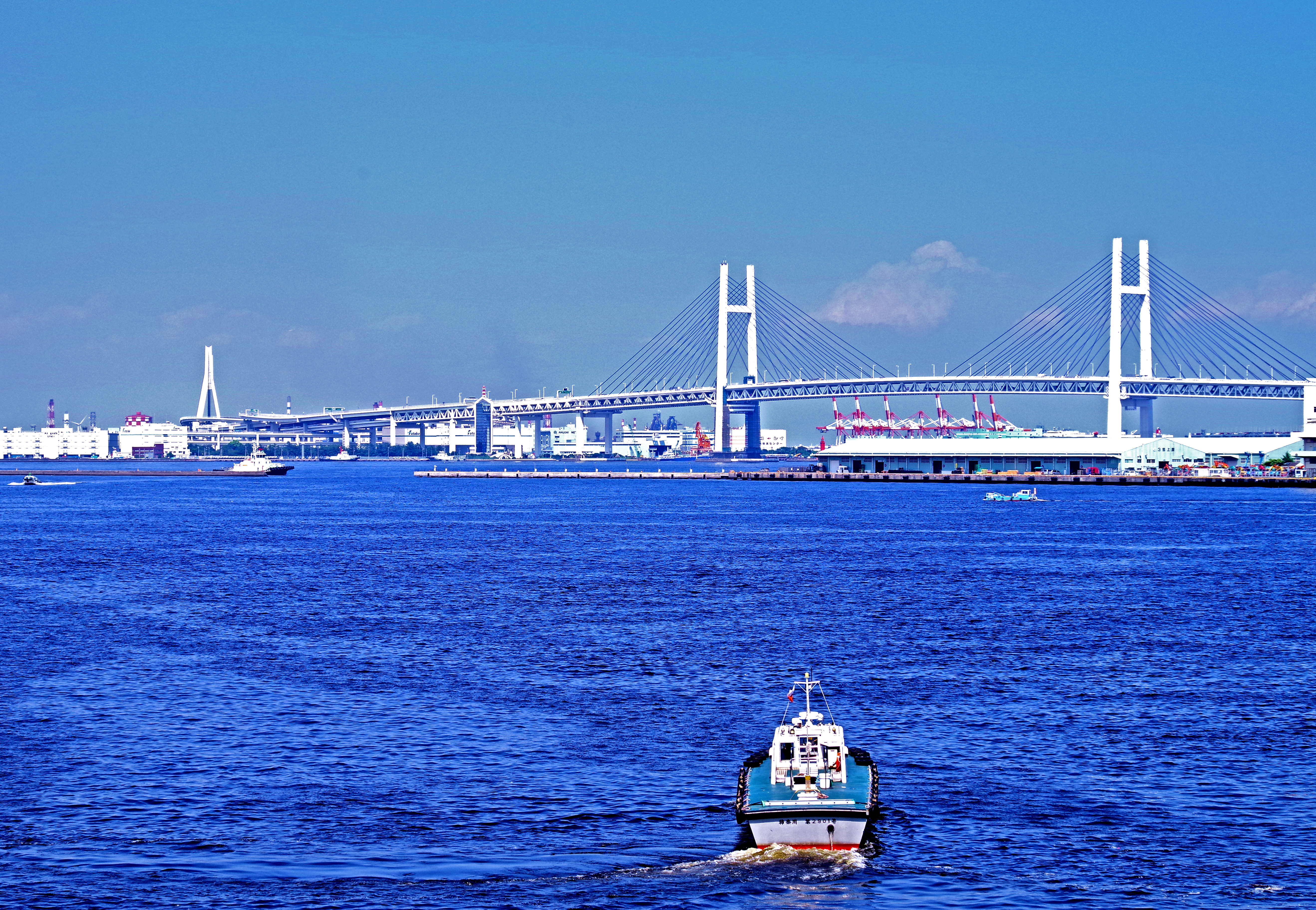 A pilot boat leaving Port of Yokohama in the direction of Tokyo Bay past the Yokohama Bay Bridge. ISO 200 for 1/250 sec. @ f/11.00 水先船 #パイロットボート #横浜港 #横浜ベイブリッジ #YokohamaPort #pilotboat #YokohamaBayBridge